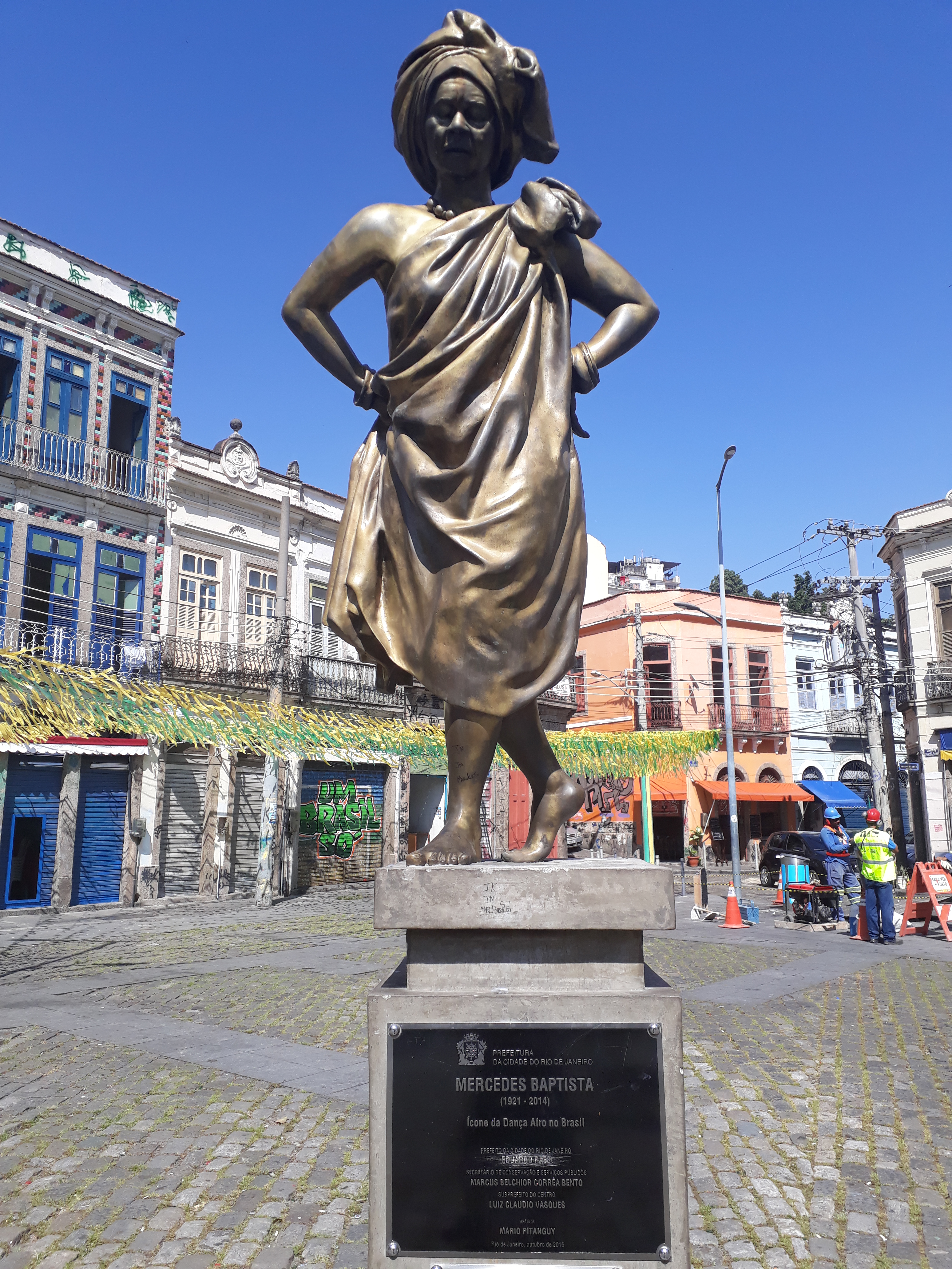 Mercedes Baptista sculpture in Rio de Janeiro. Sculptor Mario Pitanguy.